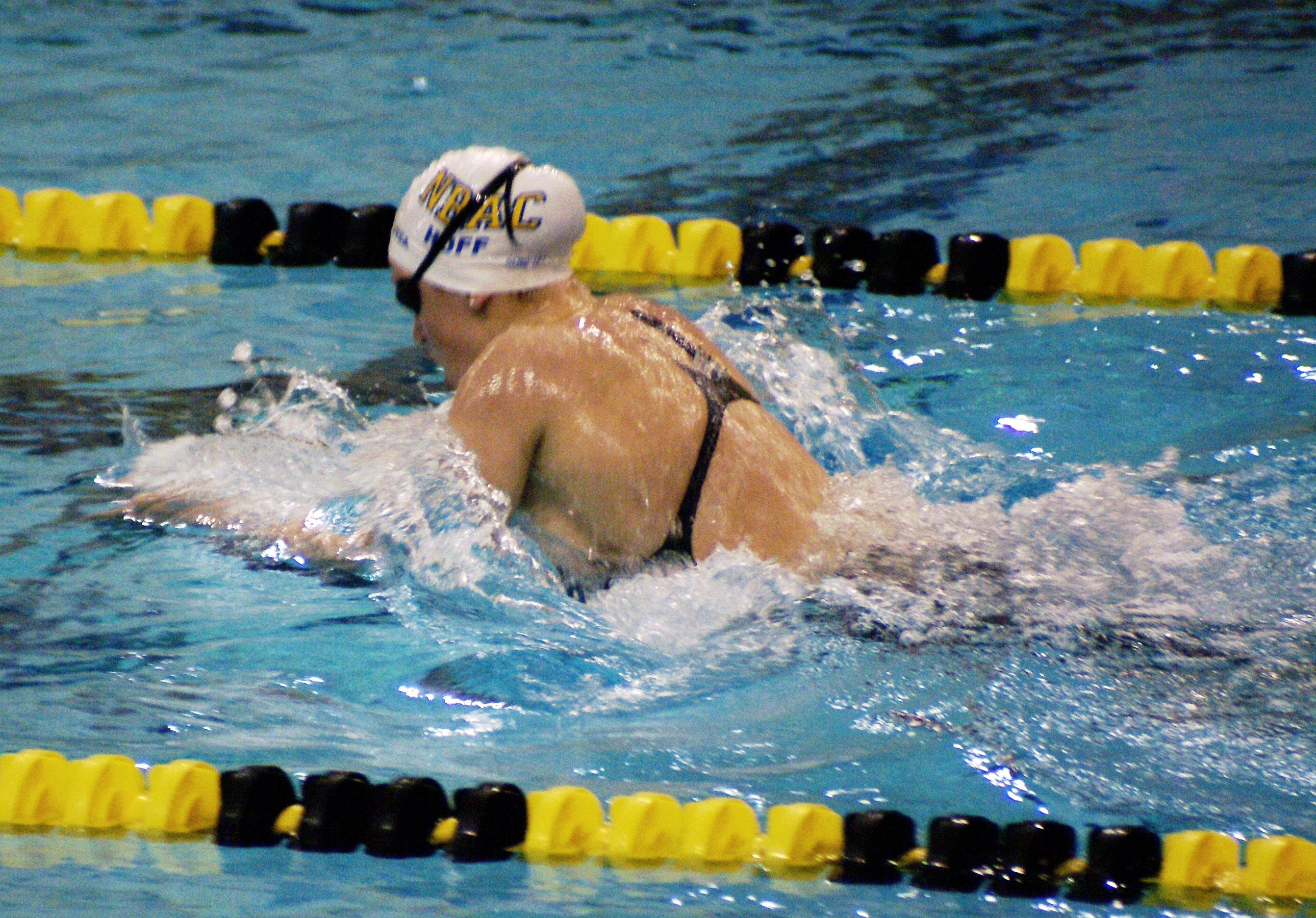 World record holder Katie Hoff swimming the 400 IM.